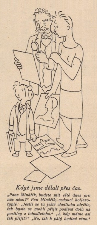 Milena Jesenská (Czech author) by V. H. Brunner, 1927